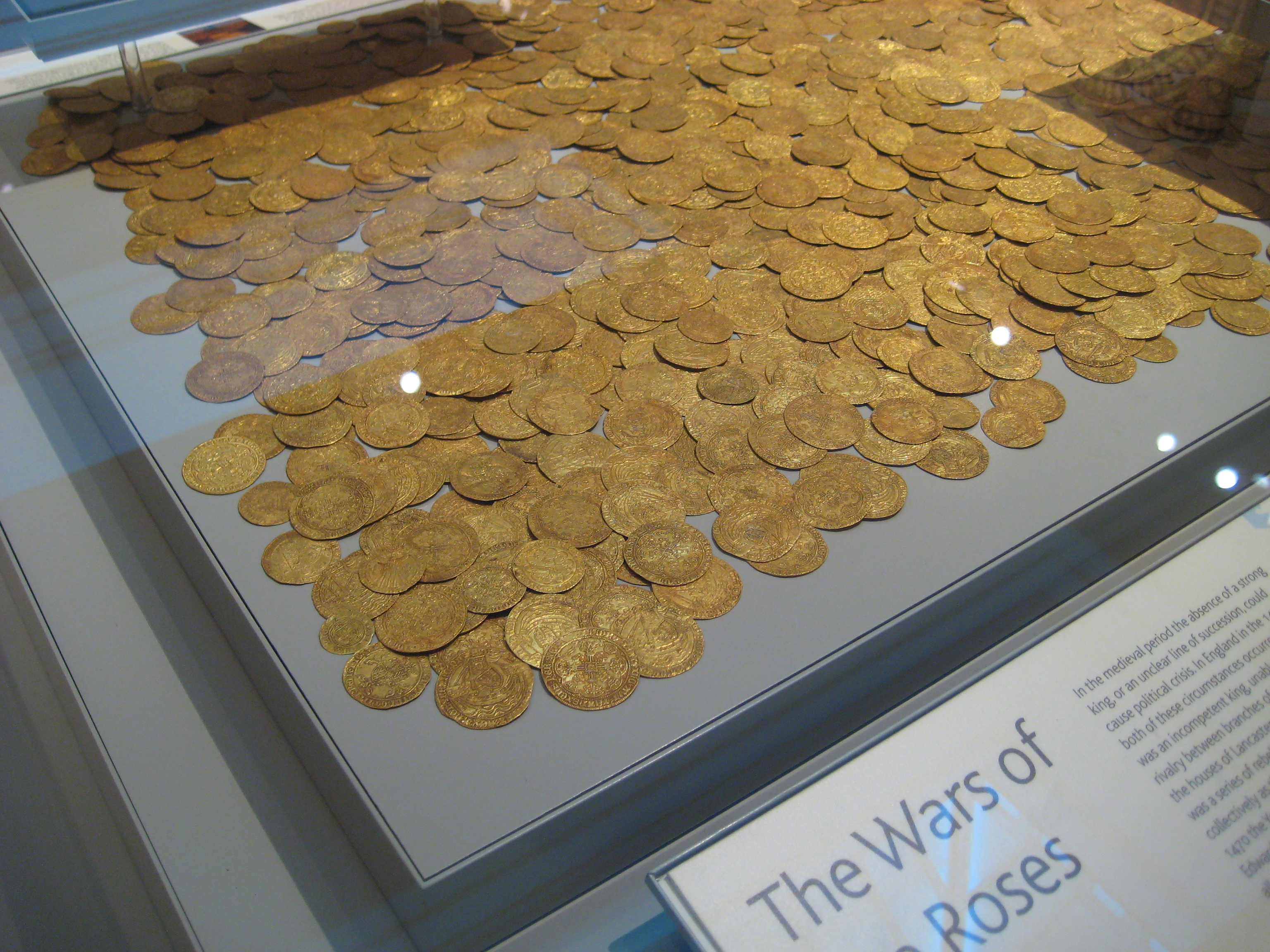 Pile of gold coins from the Fishpool Hoard on display at the British Museum.